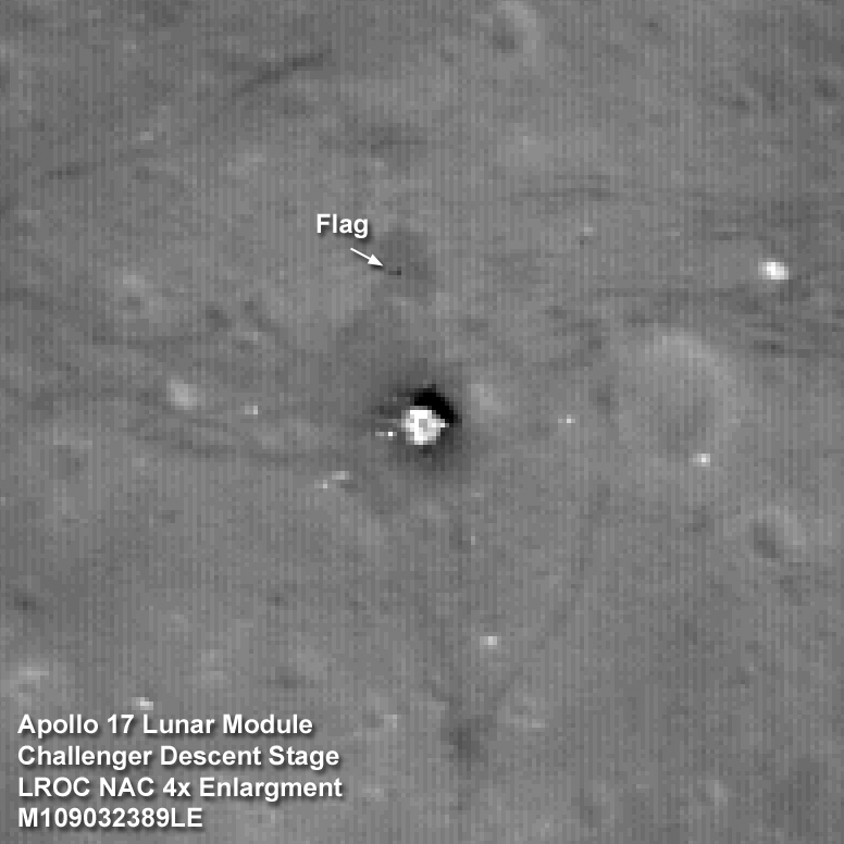 Challenger Lunar Module as seen by the LRO.